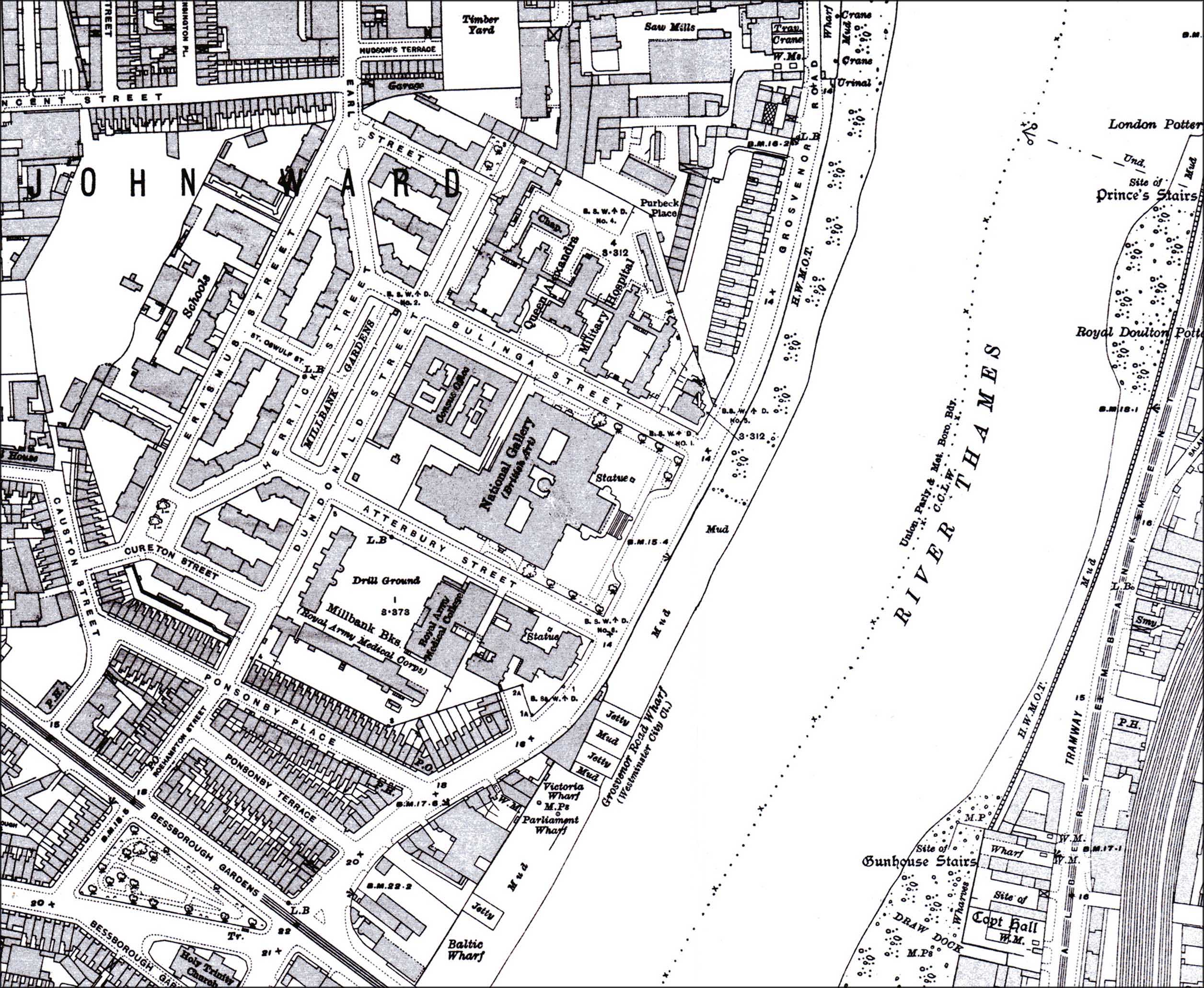 Extract of Ordnance Survey Maps for London published 1916